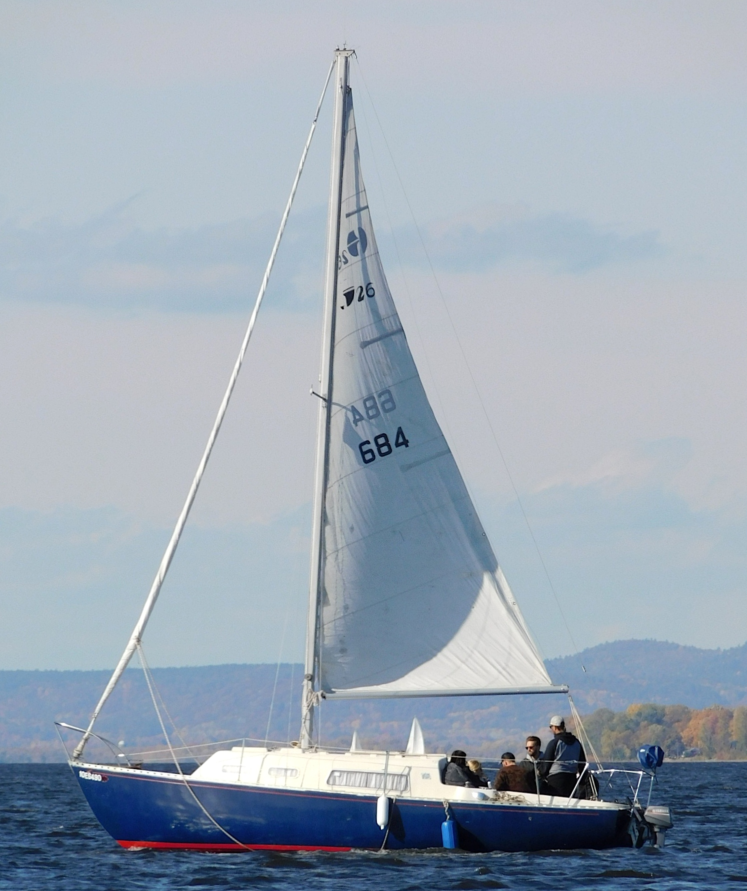 A Grampian 26 sailboat.